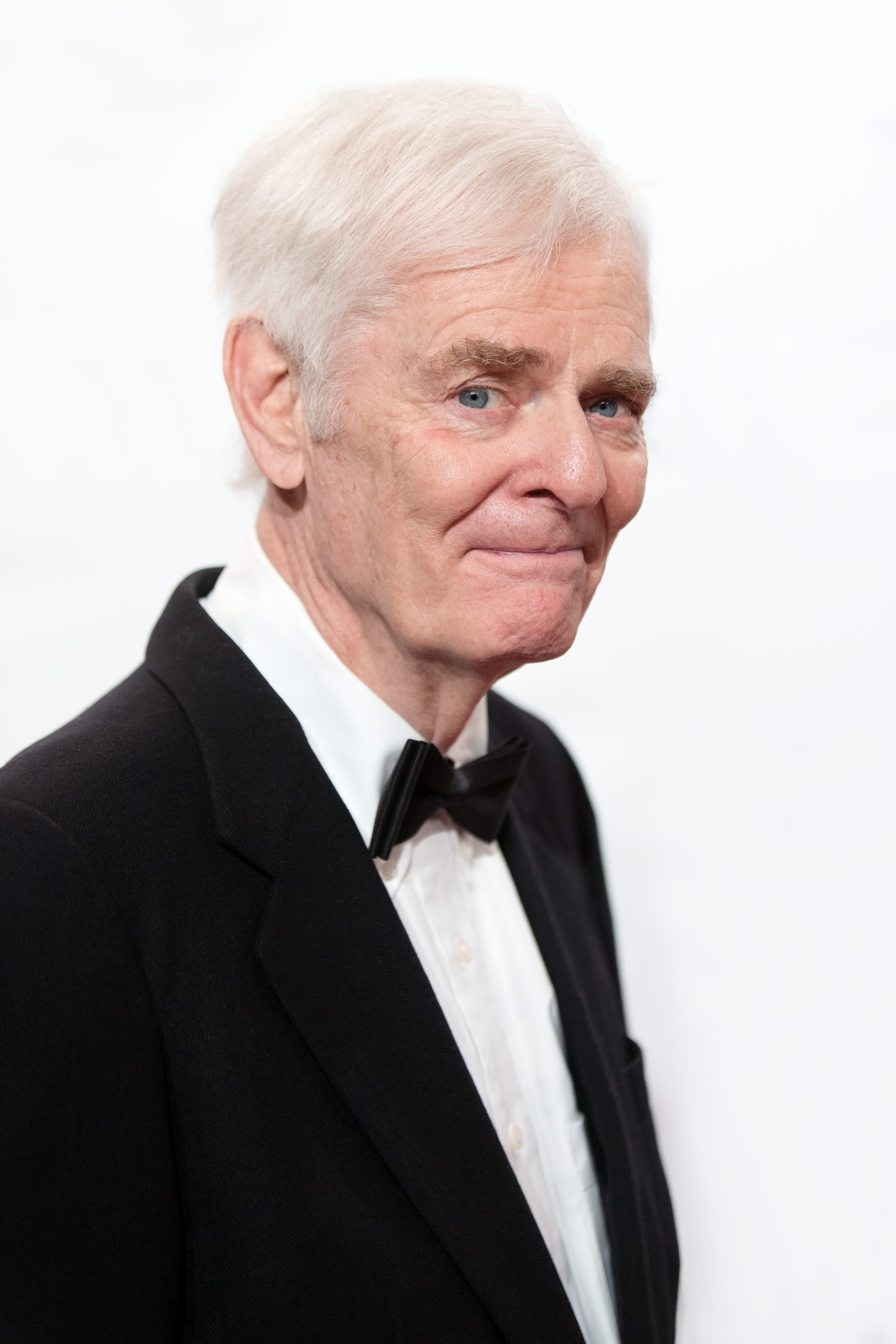 Paul Morrissey on the red carpet of the Filmball Vienna 2016 at Rathaus, Vienna, Austria.